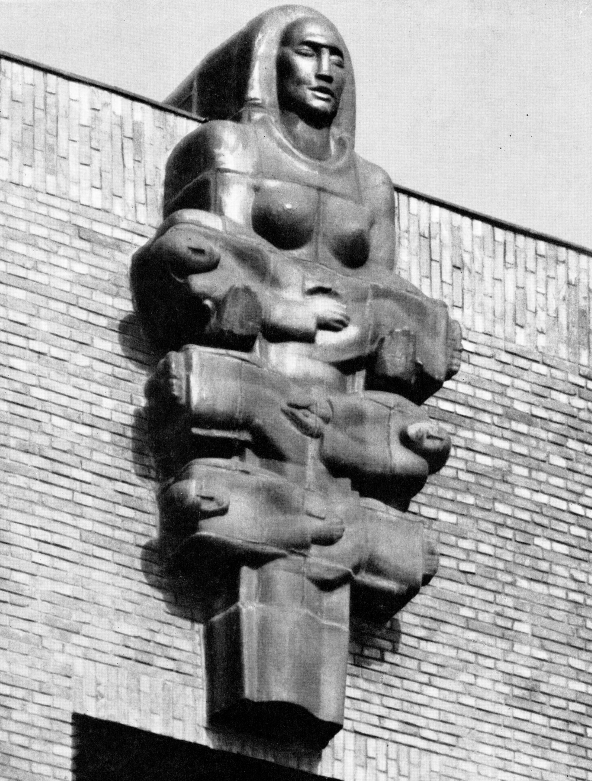 With permission by the legal sucessor Mark Lammert.